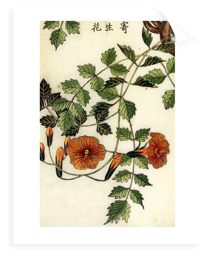 Campsis grandiflora (Thunb.) K.Schum. - Trumpet Flower